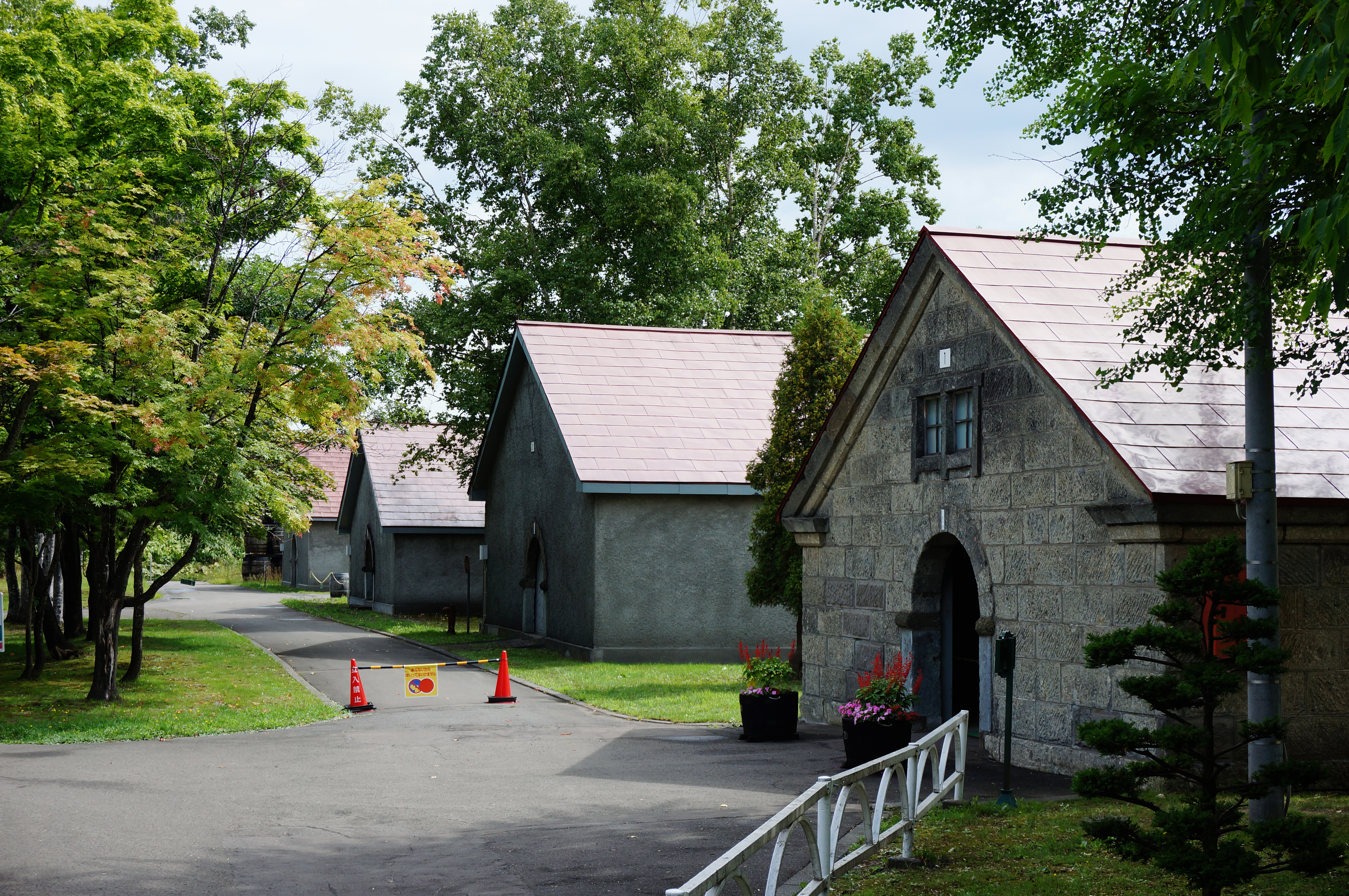 Nikka Wisky Yoichi Distillery in Yoichi, Hokkaido prefecture, Japan.